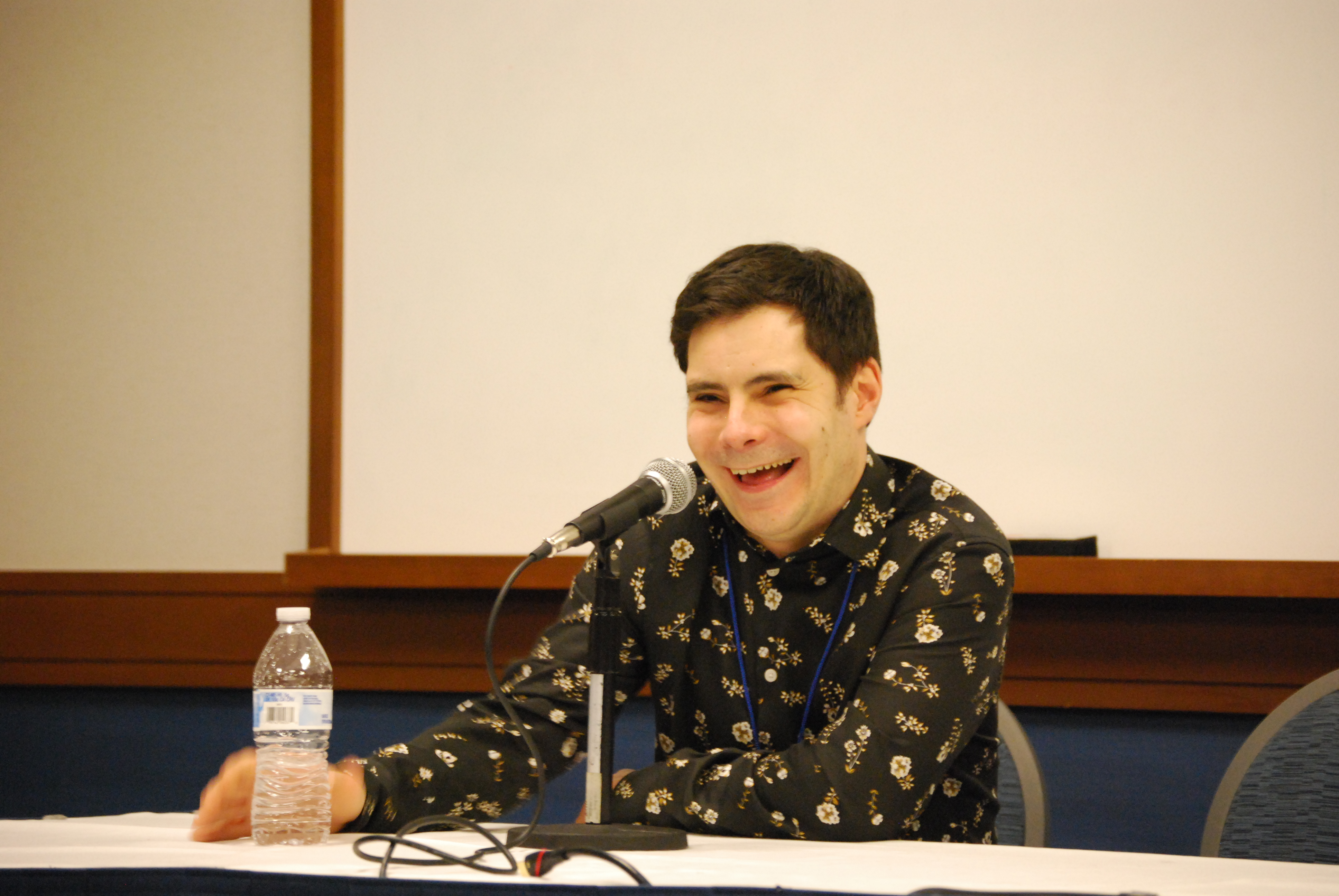 Michael Fielding at the Paradise City Comic Con in 2018